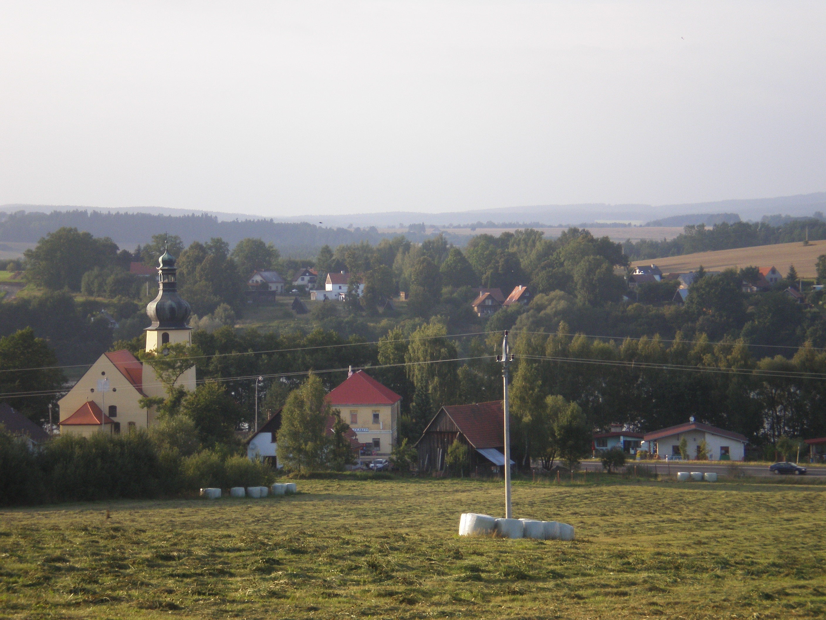 Municipality of Pomezí nad Ohří, Cheb District, Czech Republic.